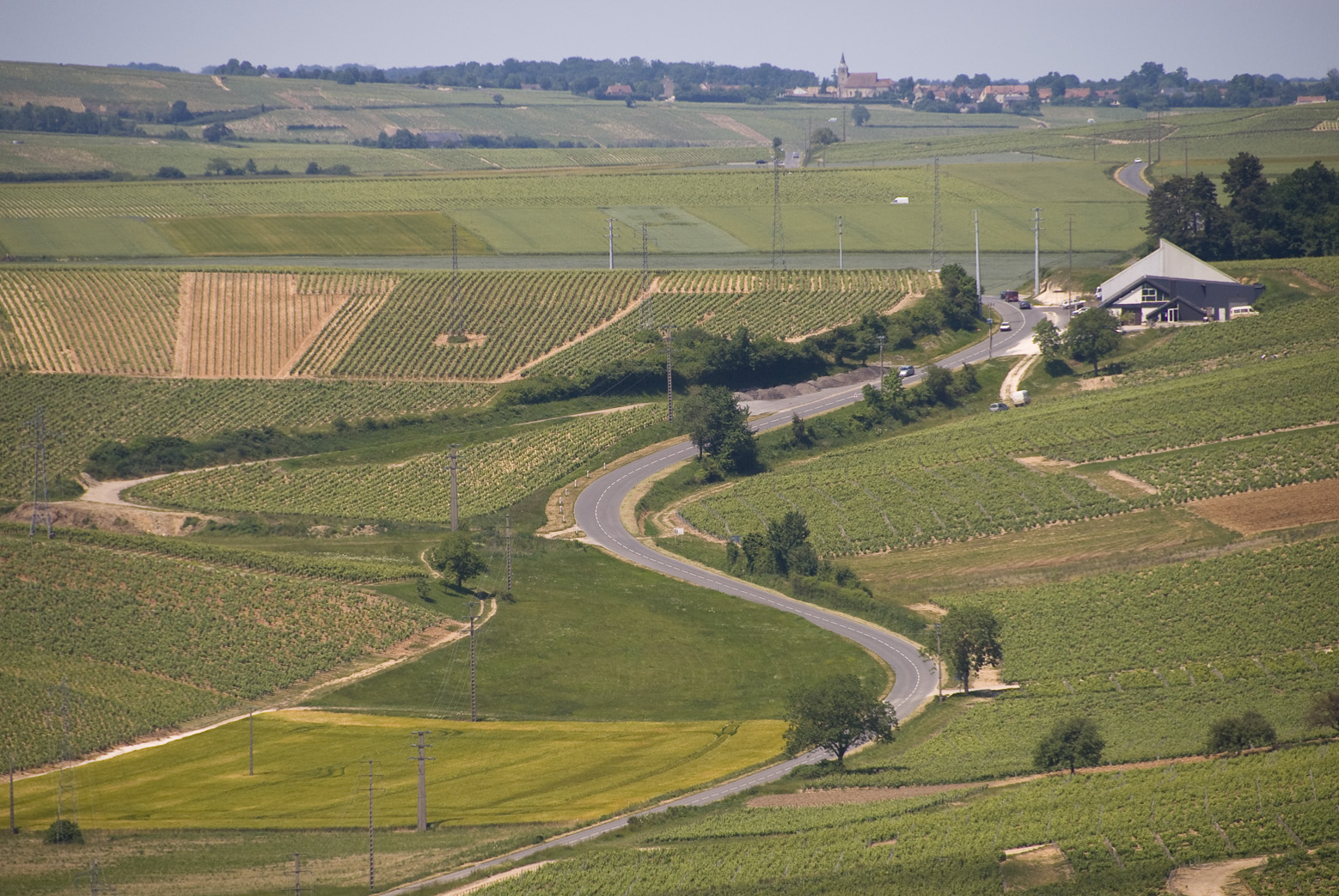 Vineyards in the French wine region of Sancerre in the Loire Valley.